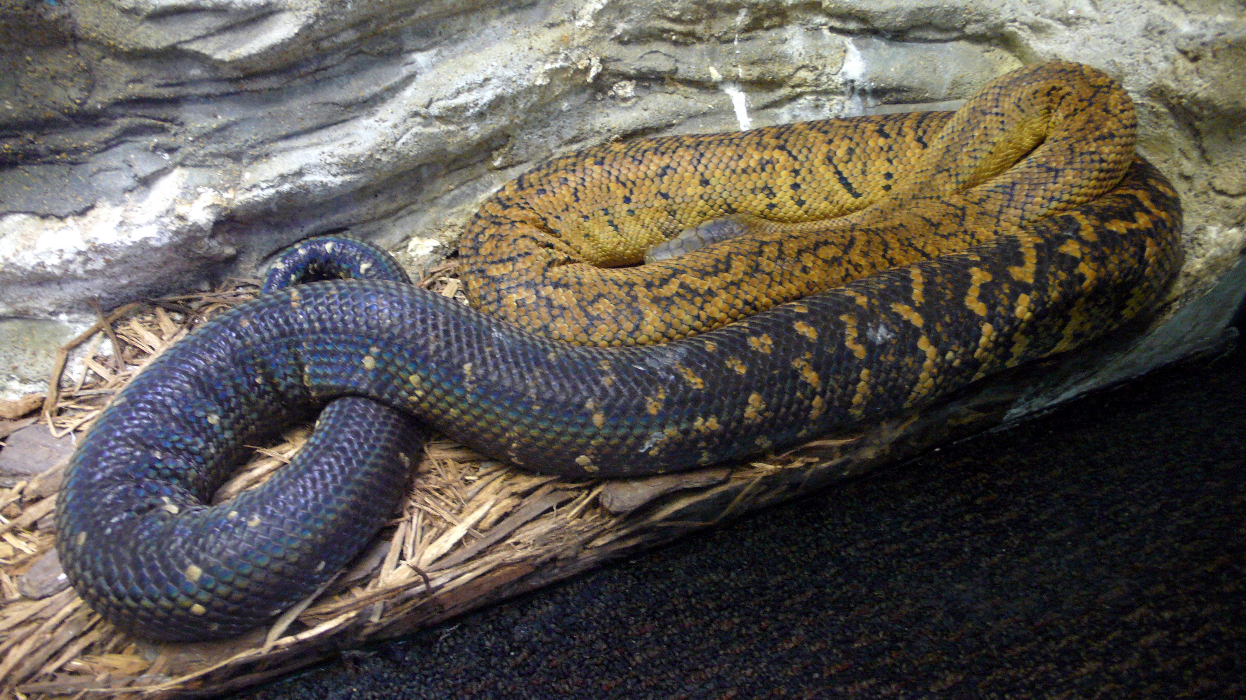 Jamaican boa (Epicrates subflavus)